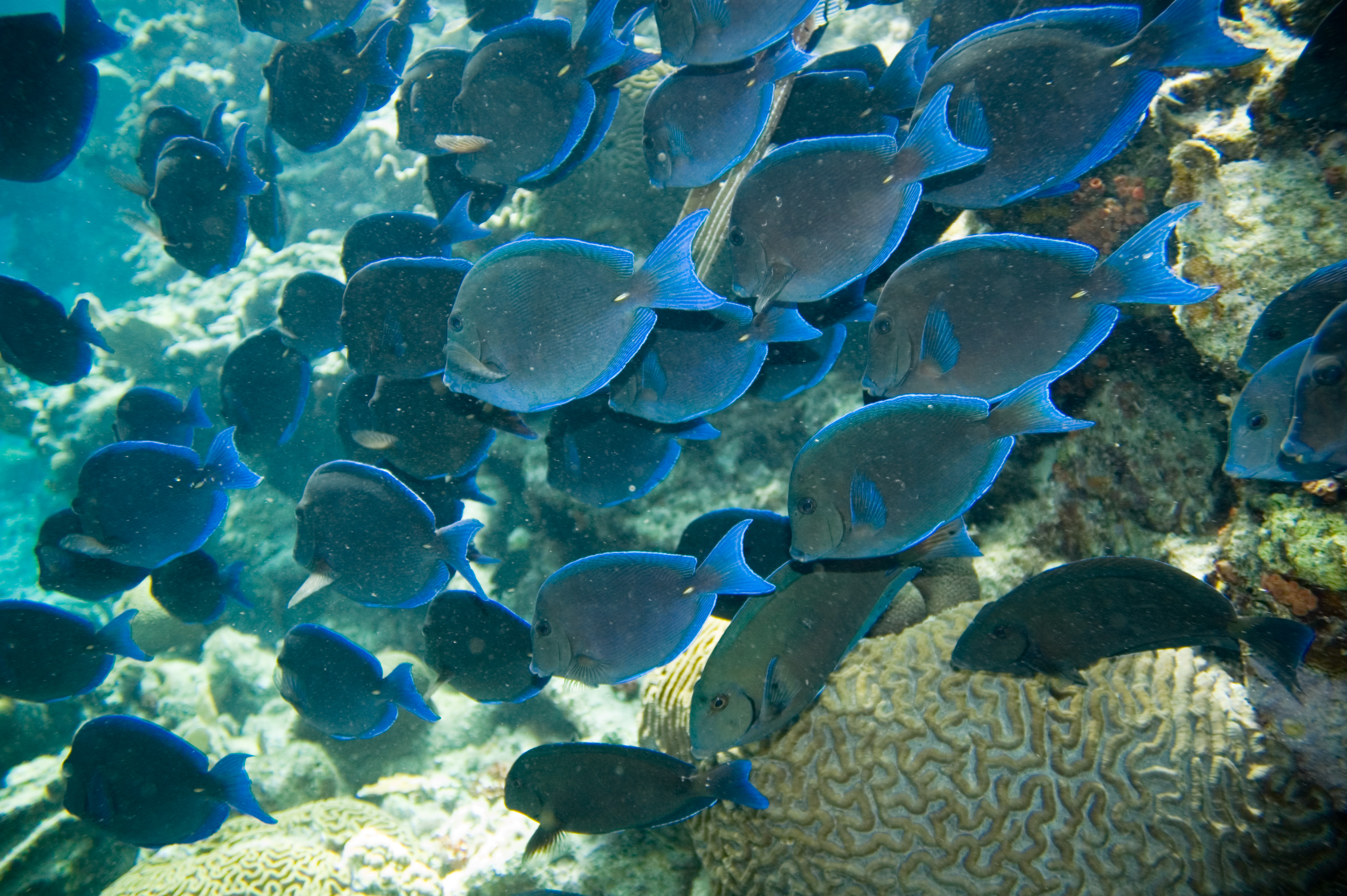 blue tang Acanthurus coeruleus